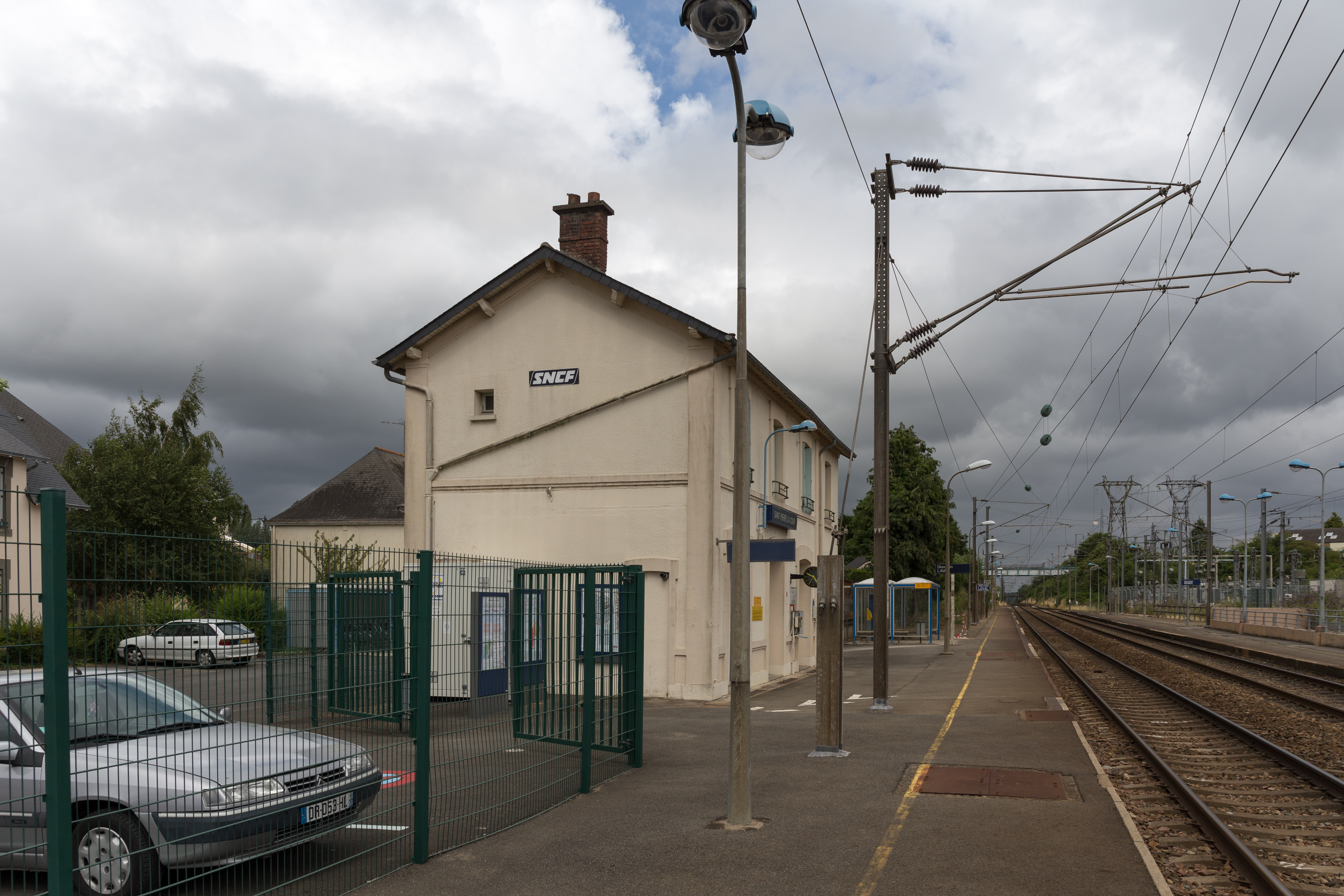 Train station of Saint-Pierre-la-Cour.